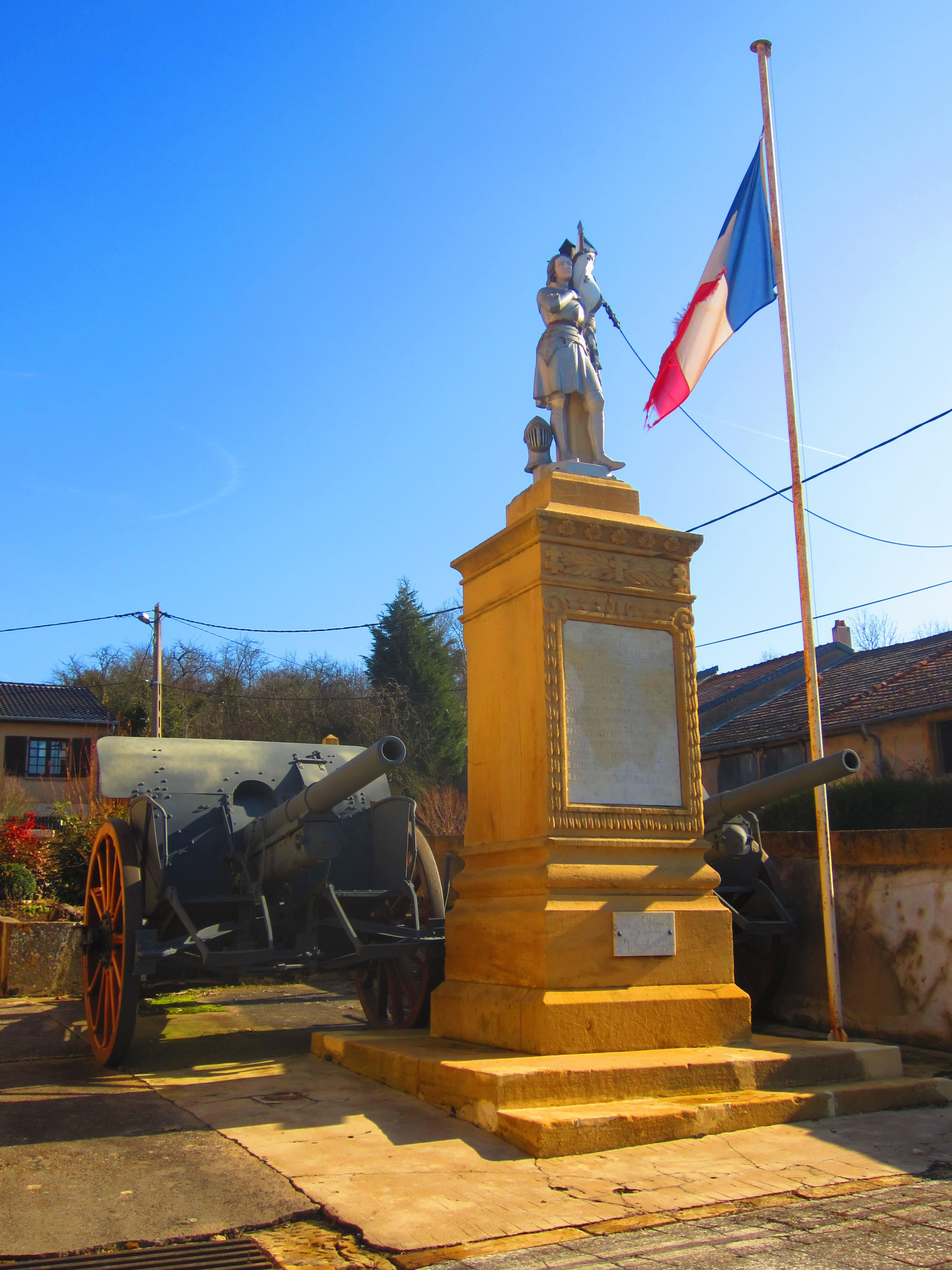 Failly statue